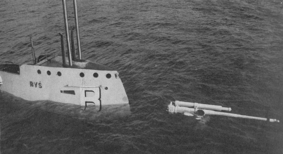 Polish submarine ORP Ryś